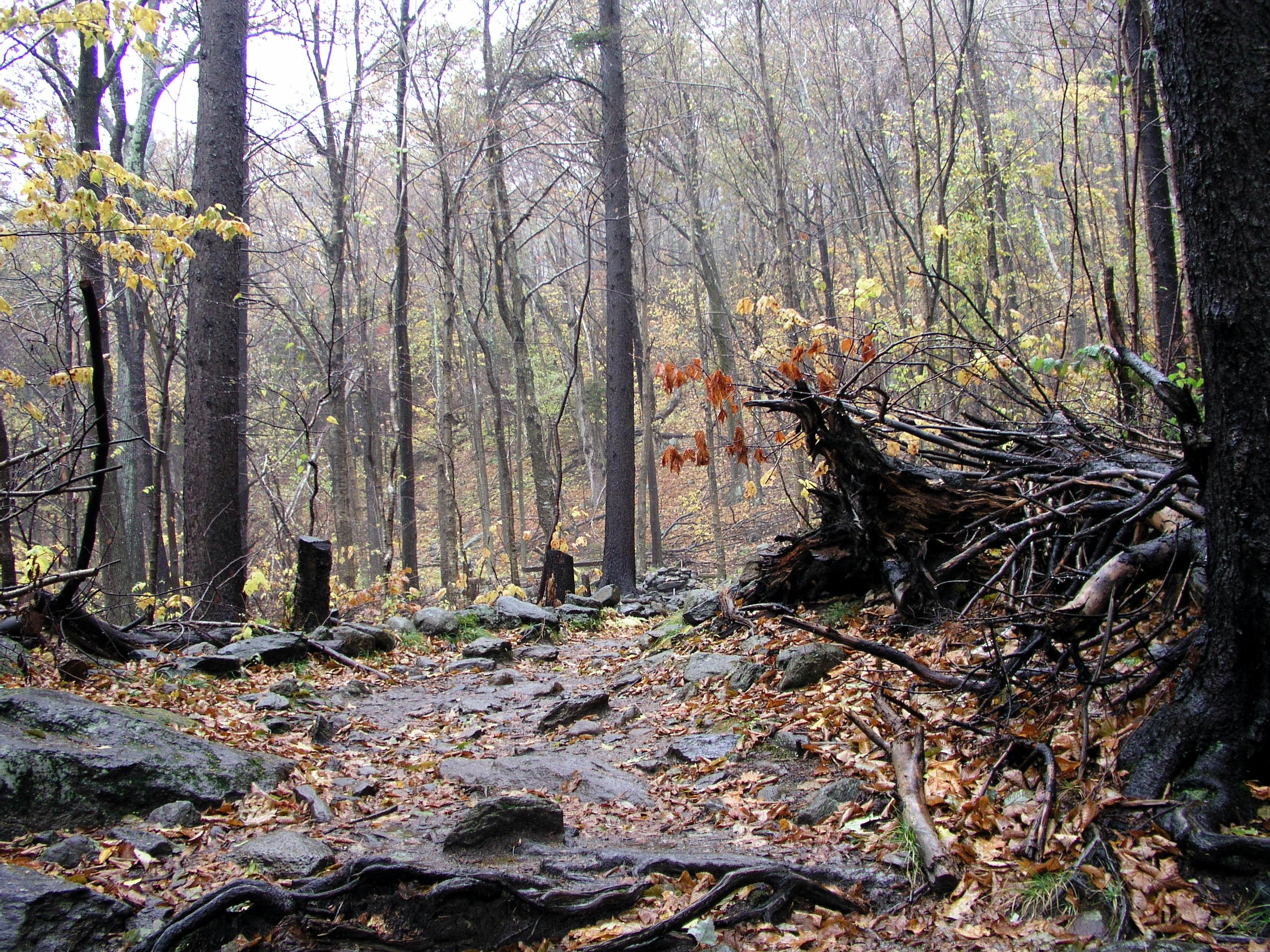 Near the beginning of the White Dot trail, Mount Monadnock, New Hampshire.